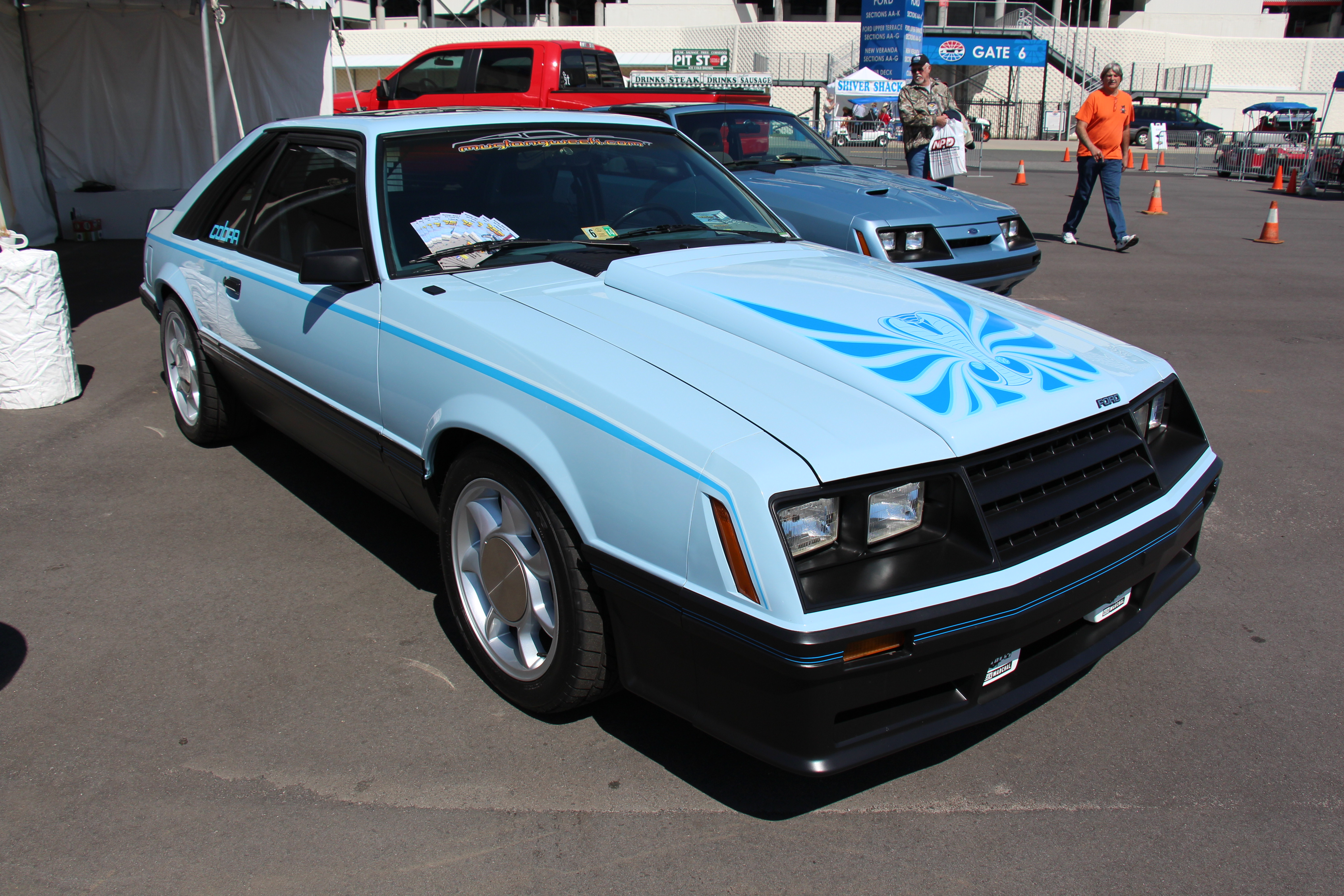 Medium Blue Glow. The 3rd generation Fox body Mustang was made from 1979-1993, a substantial update in 1987 saw the grille and quad headlights replaced by modern single headlights and the no grille aero look. It was available again in coupe or hatchback. In 1979 Base, Ghia or Cobra and engines were the 2.3 litre 4 cyl Turbo, 2.8 V6 and 5.0 V8. In 1980 and 81 the 5.0 V8 was dropped in favour of the smaller 4.2 V8 for better economy. 1981 was the last year for the Cobra option package. It got the hood scoop, sport exhaust, dual black sport mirrors and black bumper guards. The large Cobra hood decal was an additional $95 option. Engine; 4.2 litre V8 Photographed at the 50th Anniversary of the Mustang celebrations at the Charlotte Motor Speedway, April 2014